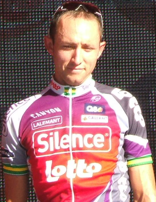 Named cyclist at the en:2009 Tour Down Under team presentation